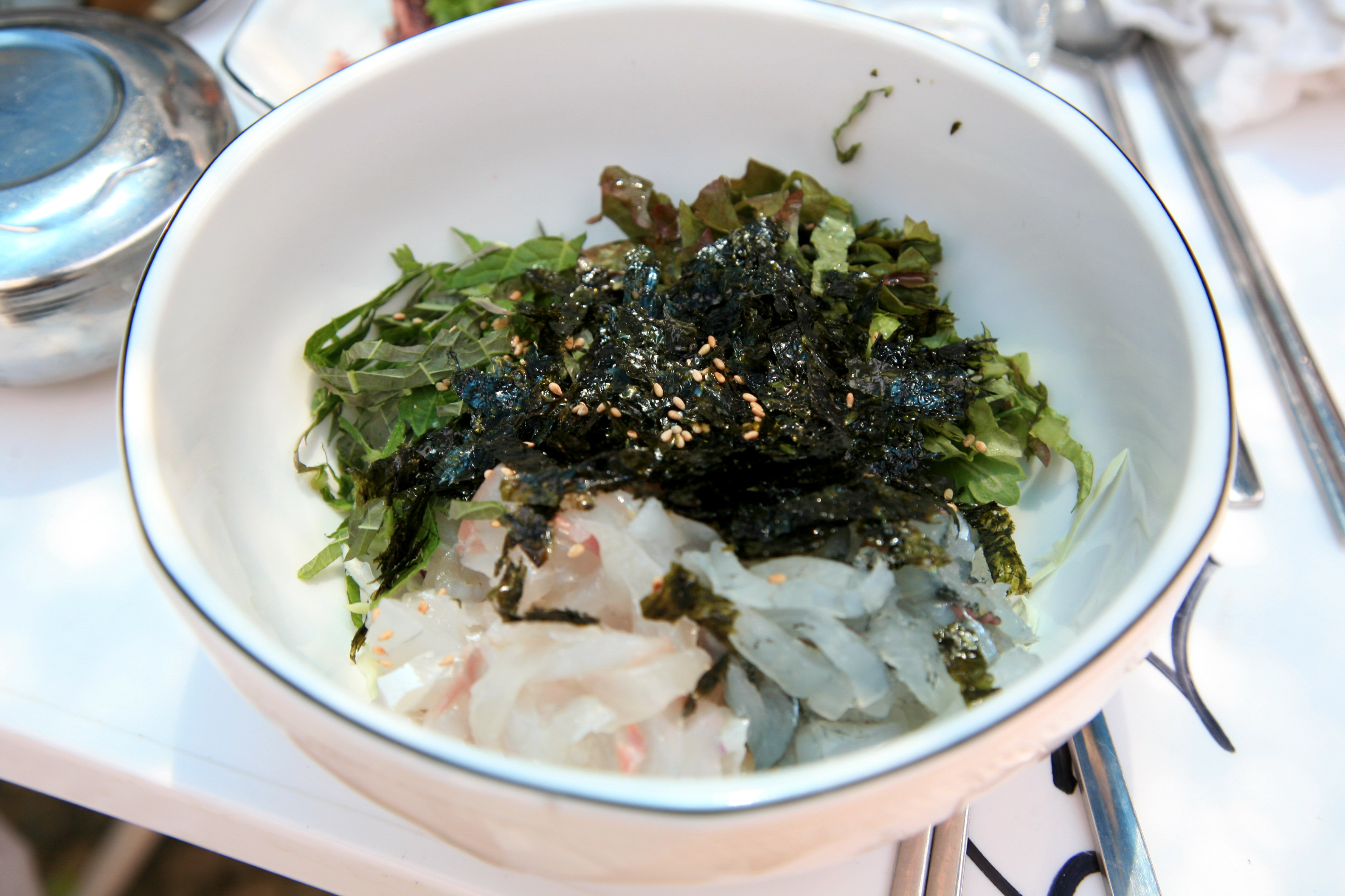 View of Tongyeong, South Gyeongsang province, South Korea